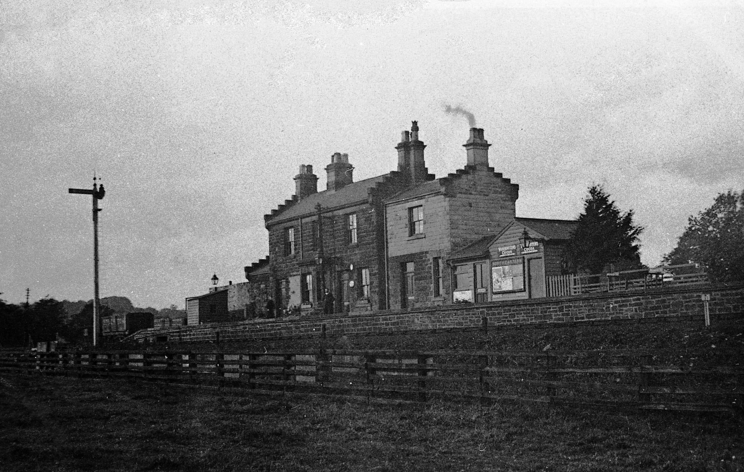 Old postcard view of Ripley Valley station on the North eastern railway in Yorkshire, UK, view looking towards the north-west